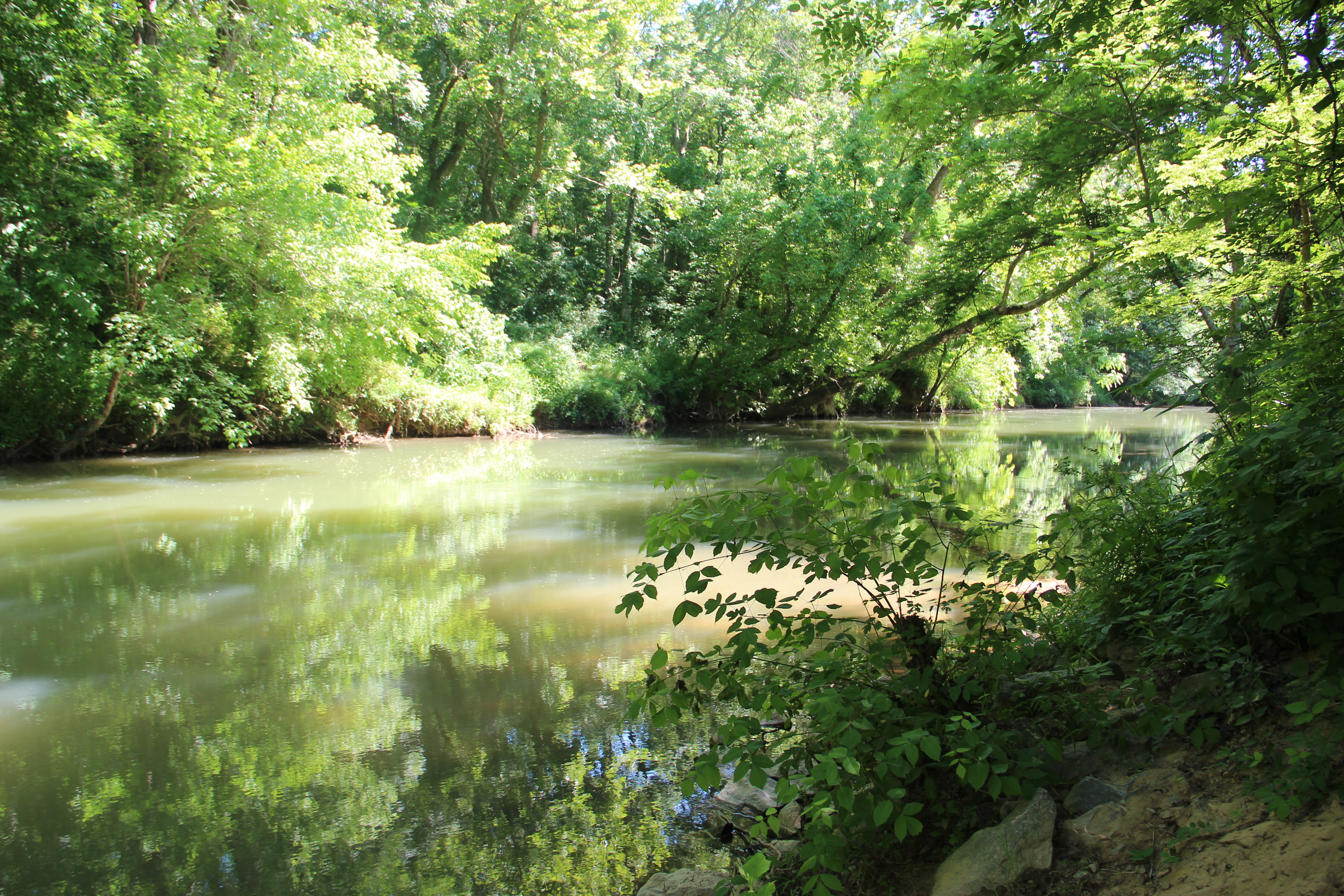 Euharlee Creek near Euharlee, May 2015